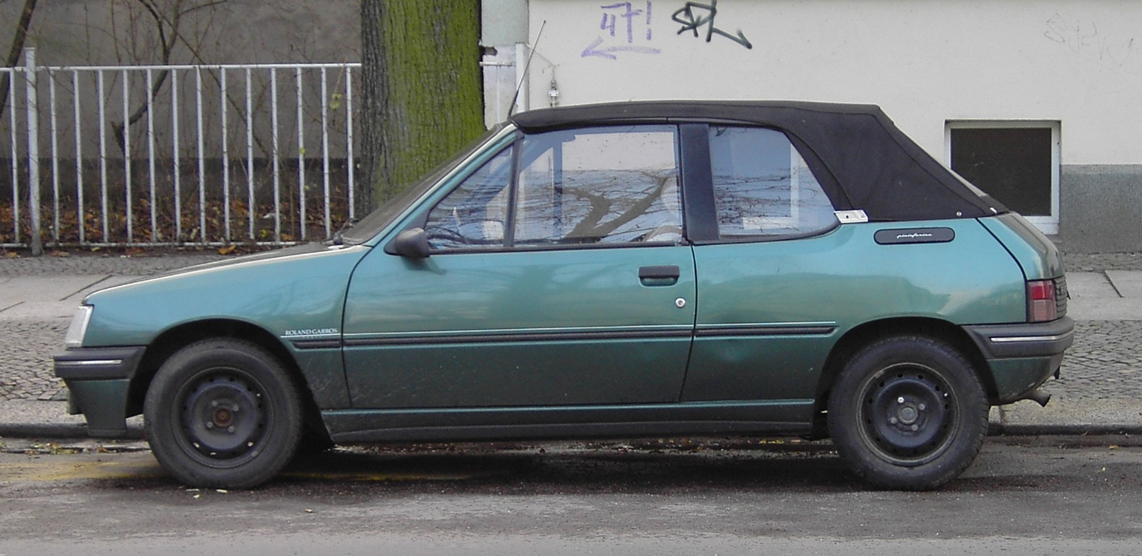 a Peugeot 205 Roland Garros Cabriolet